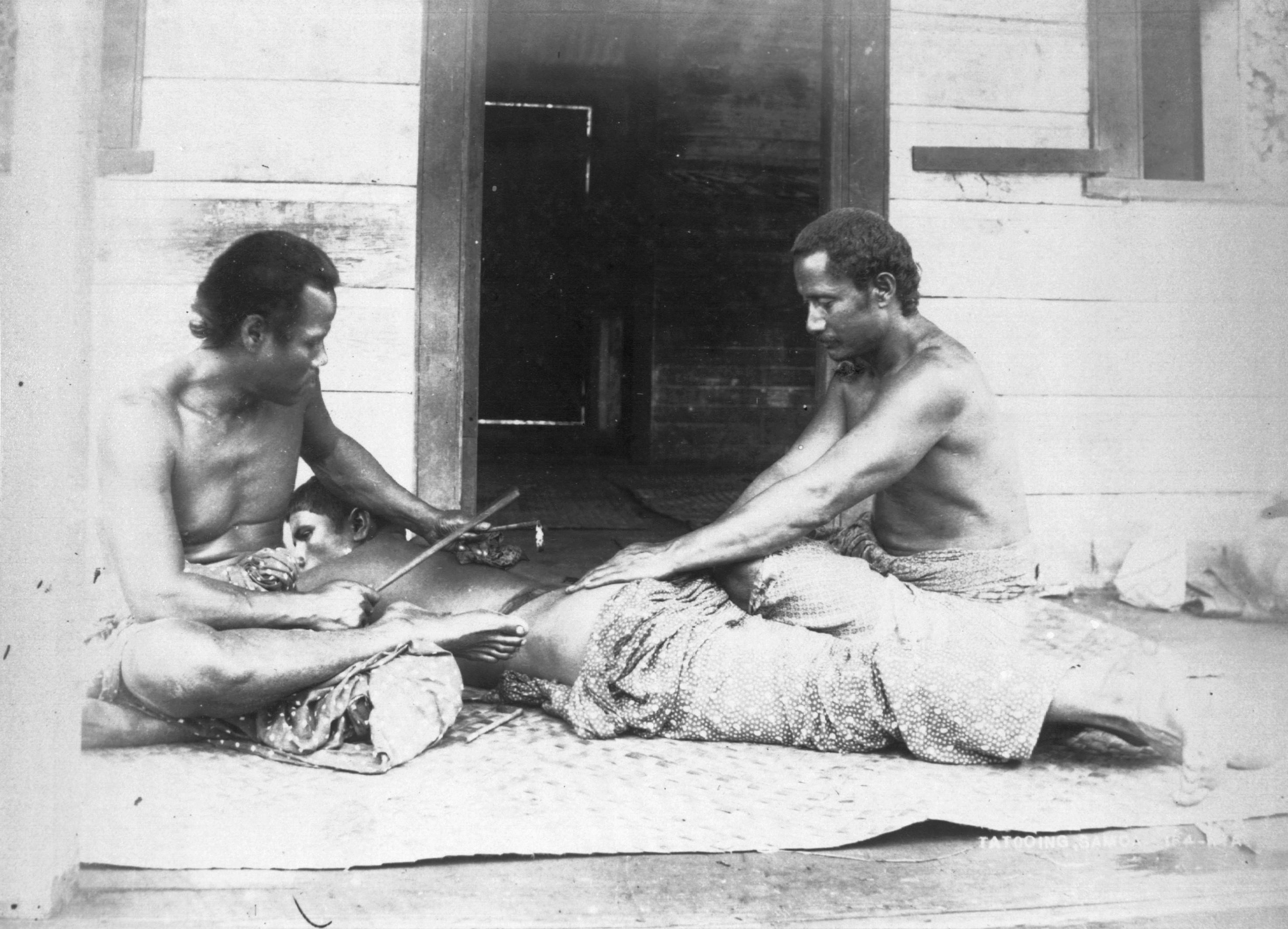 A Samoan tattooist (left), Tufuga ta tatau and assistant (right), carrying out a traditional tatau on a man's back. The tattooist uses traditional tools. Gagana Samoa: Le ata o le Tufuga ta tatau, na pu'e e Thomas Andrew, le palagi pu'e ata na nofo ma faigaluega i Samoa. O le ata lenei tusa na pu'e i le tausaga 1895 i Samoa.